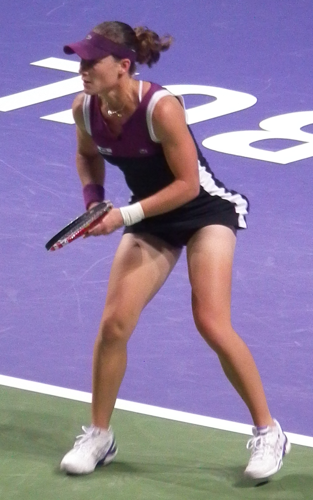 Samantha Stosur at WTA Istanbul 2011